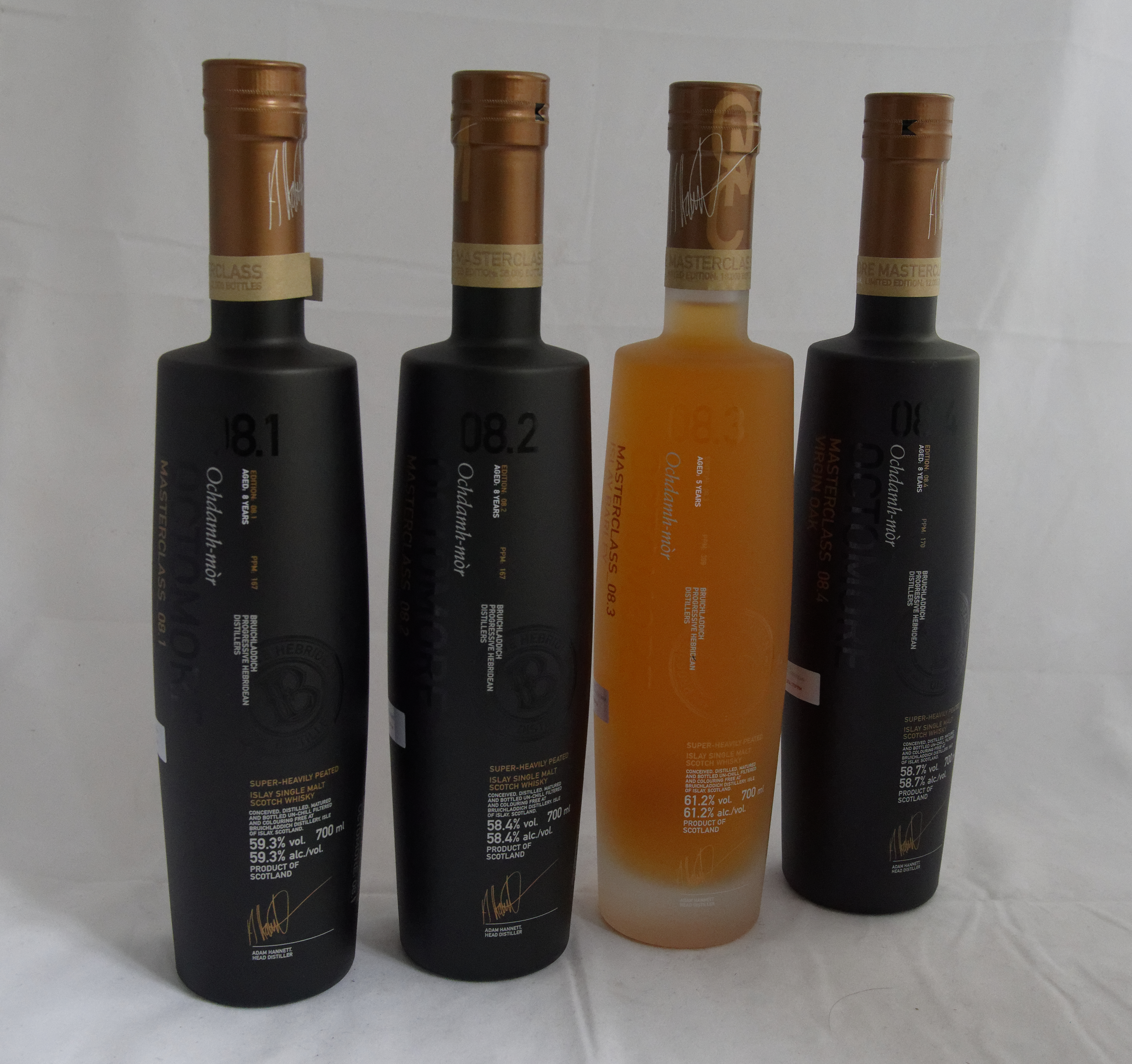 Octomore Masterclas 8.1 to 8.4, 8.3 in the light bottle